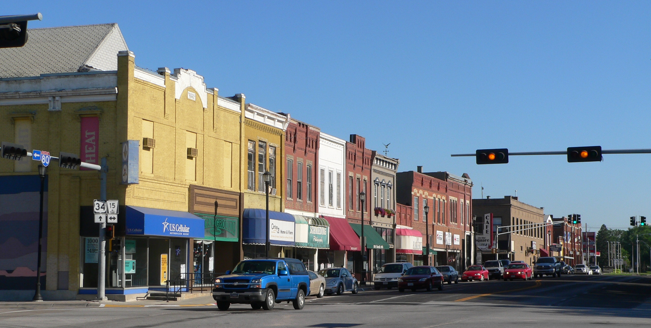 Downtown Seward, Nebraska: west side of Sixth Street (Nebraska Highway 15), looking northwest from Main Street (U.S. Highway 34.